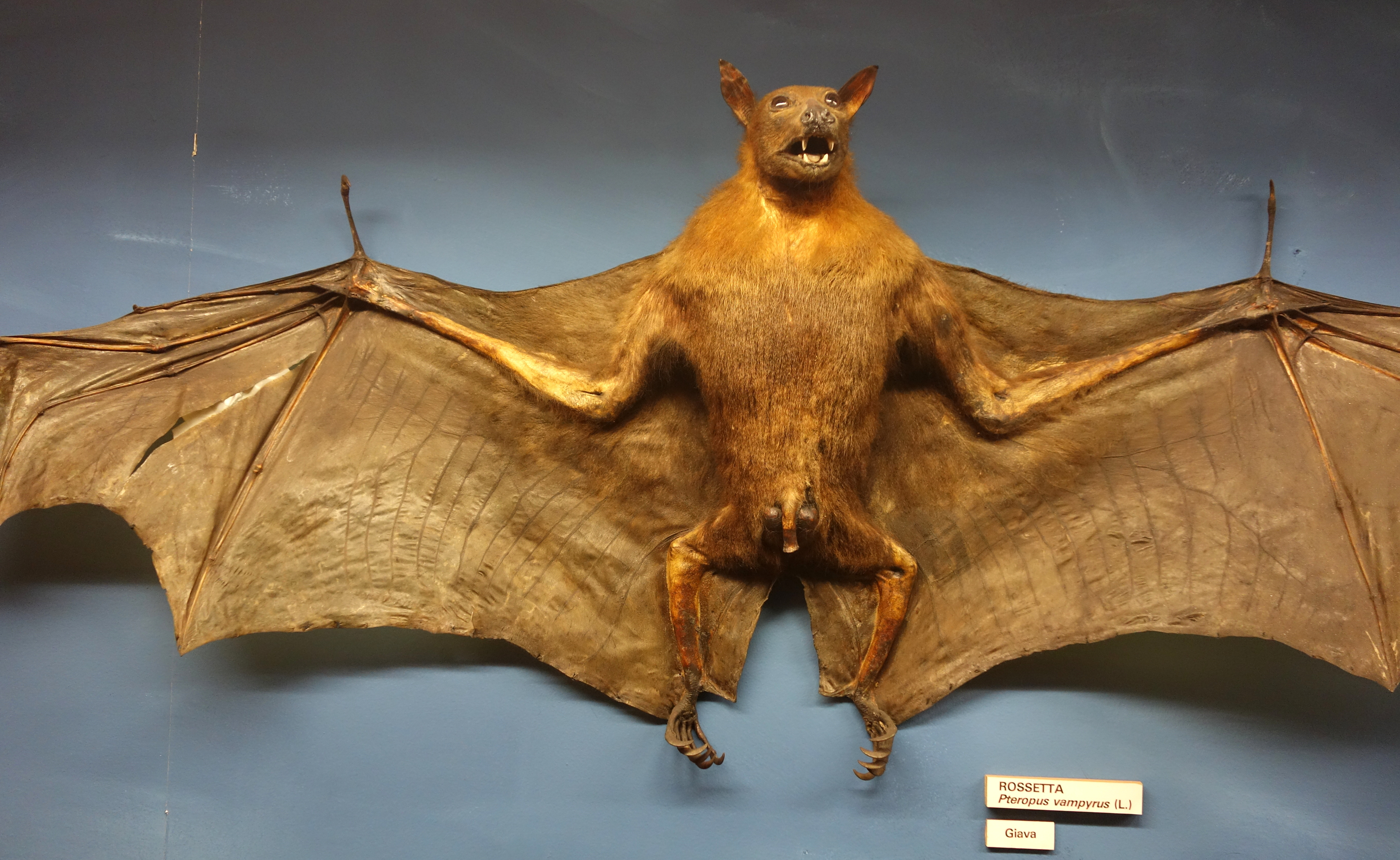 Exhibit in the Museo Civico di Storia Naturale di Genova, Via Brigata Liguria, 9, 16121, Genoa, Italy.